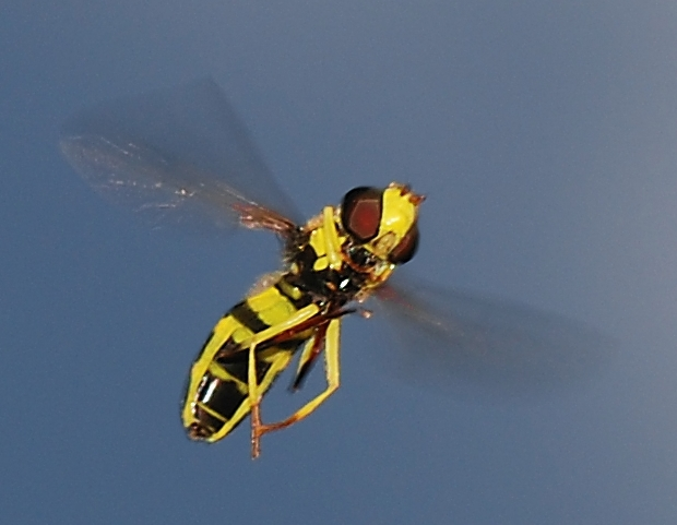 Hoverfly (Xanthogramma pedissequum)